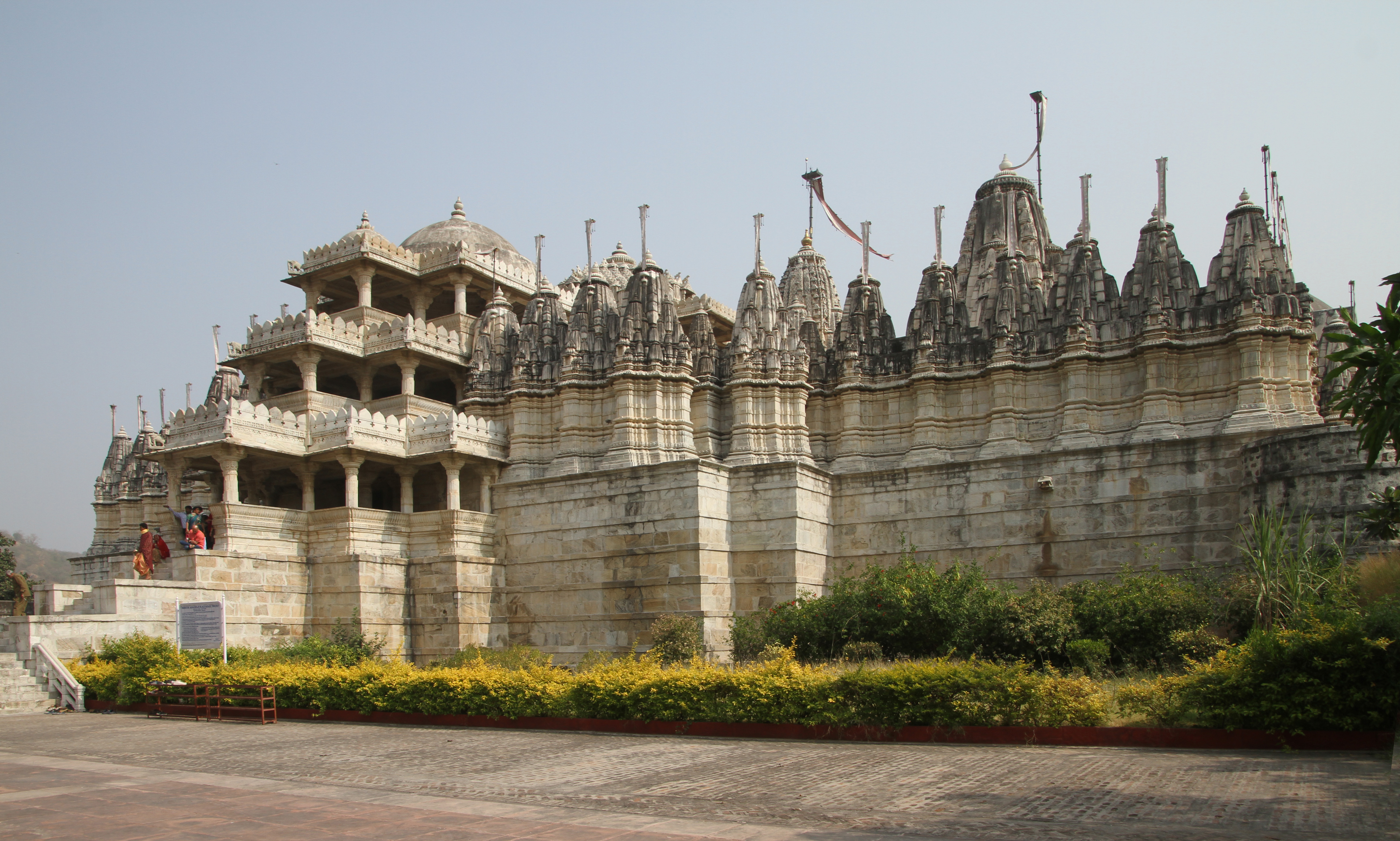 Adinath temple, Ranakpur